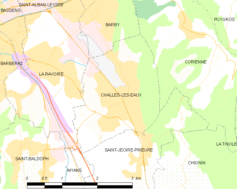 Map of French municipality